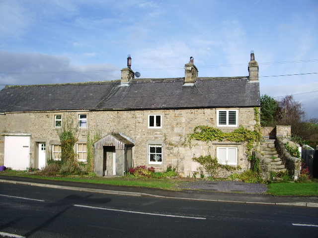 "Stone Steps", Wennington